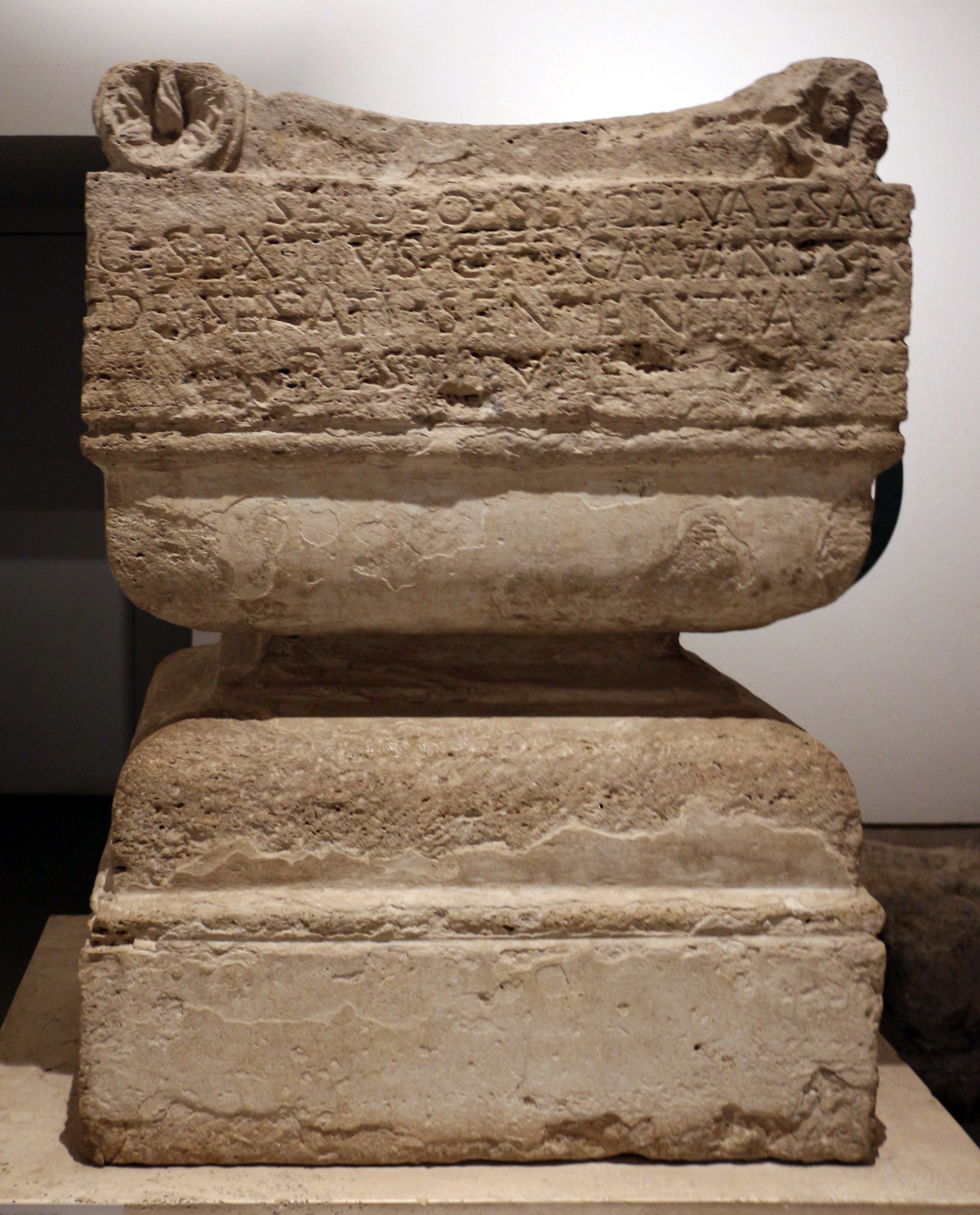 Antiquarium del Palatino (Rome)